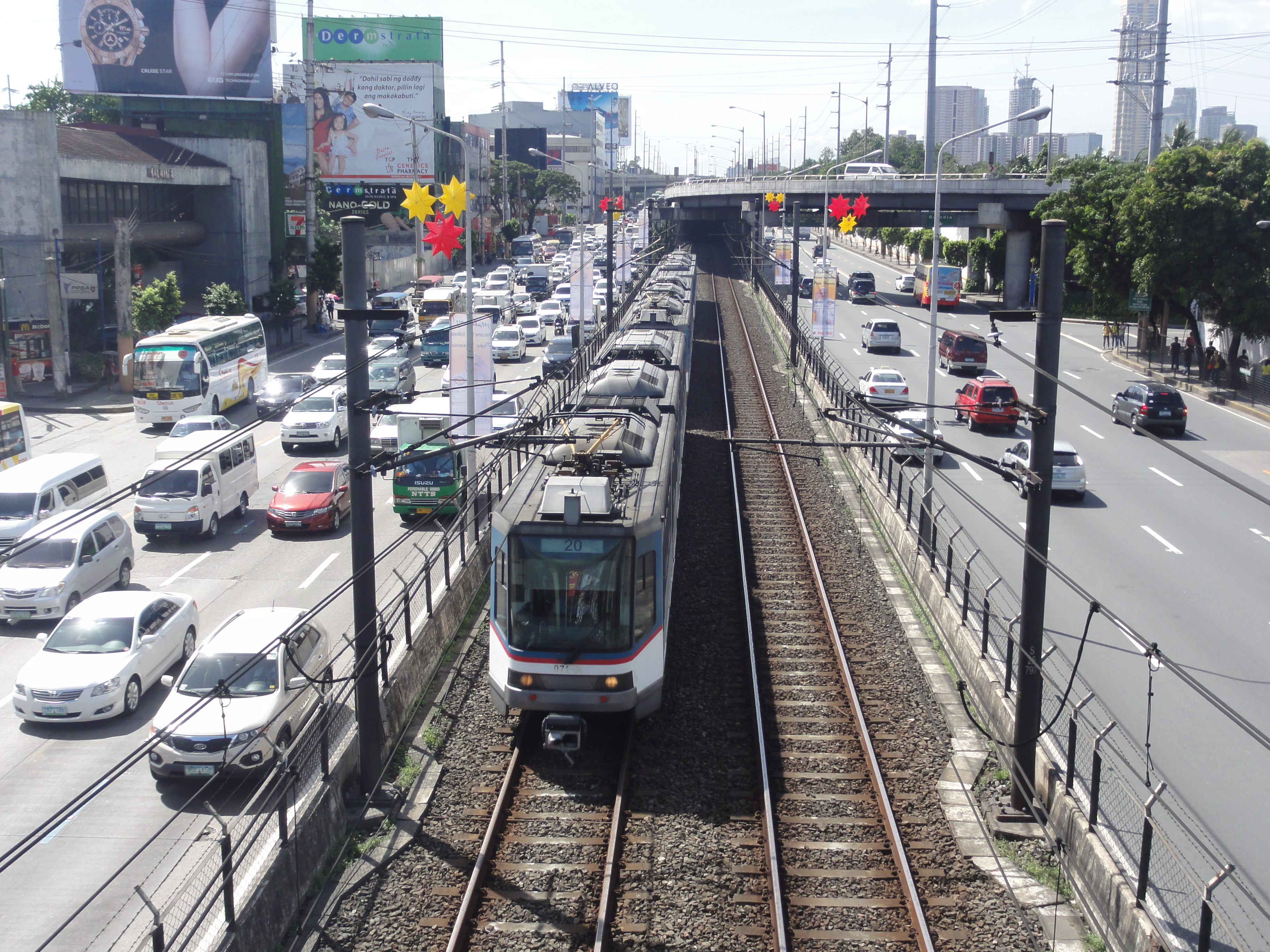 A Line 3 train along EDSA (AH26), Makati City.